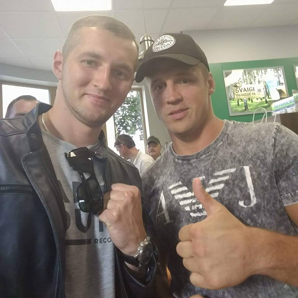 Mairis Briedis (right) with his fan